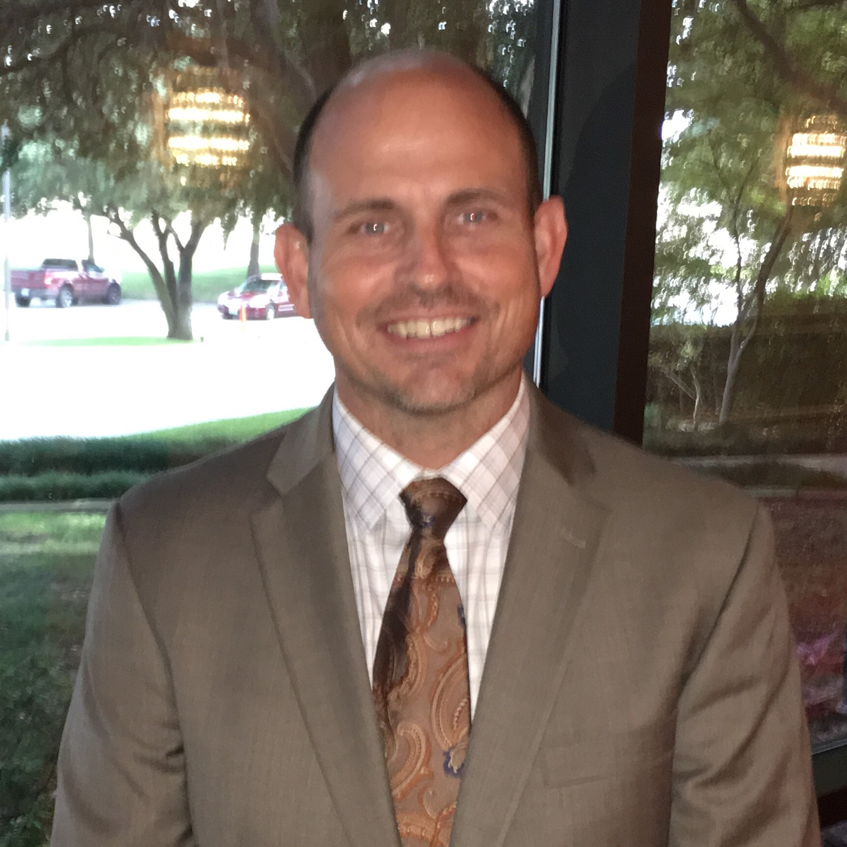 Bill Clark, head coach of the UAB Blazers football team, at the 2017 Conference USA media days in Irving, Texas.